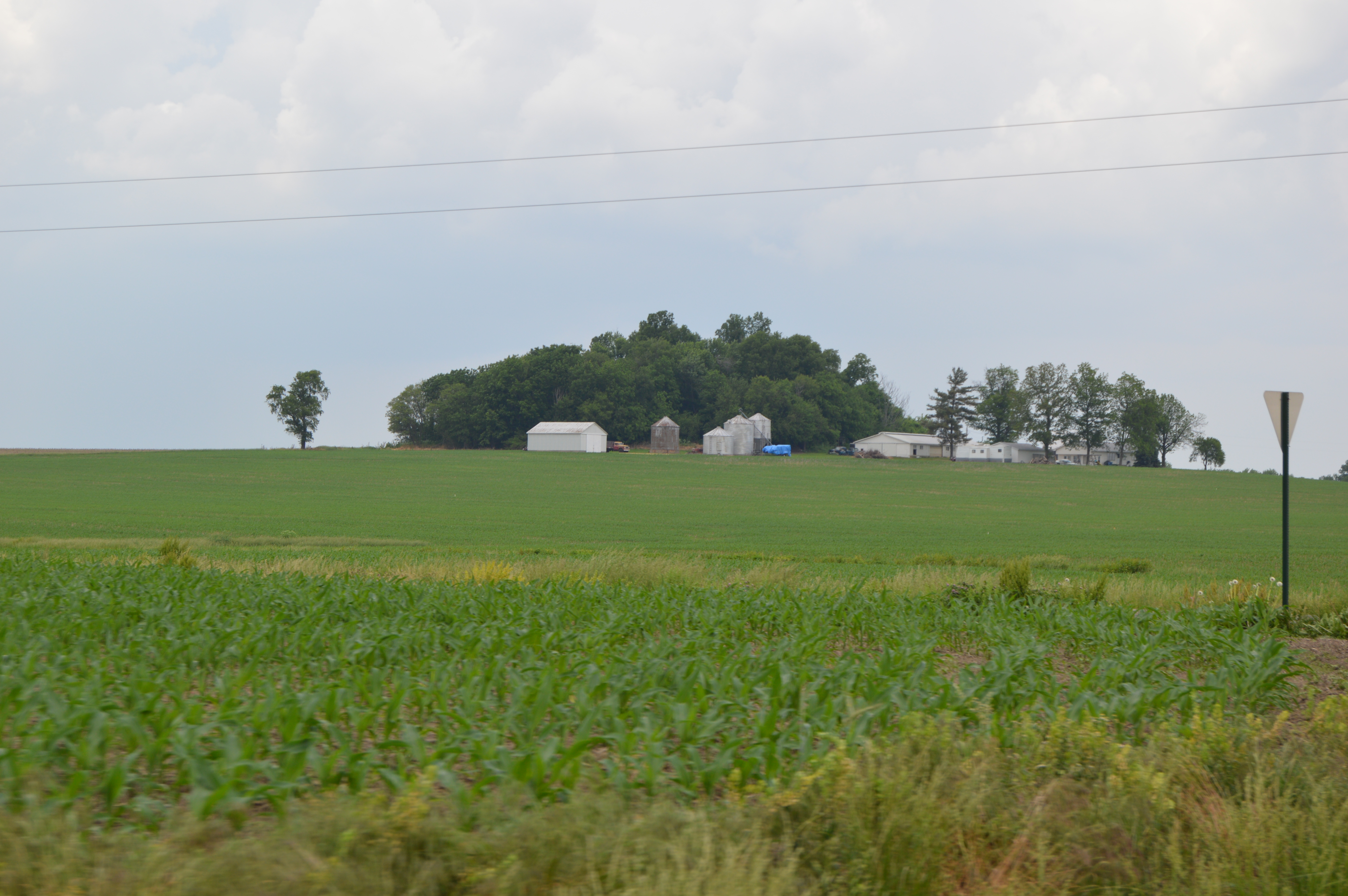 Distant view from the south of the Emerald Mound, a major Mississippian site located north of Midgley Neiss Road northeast of Lebanon in Lebanon Township, St. Clair County, Illinois, United States. One of the area's most important archaeological sites, it is listed on the National Register of Historic Places.